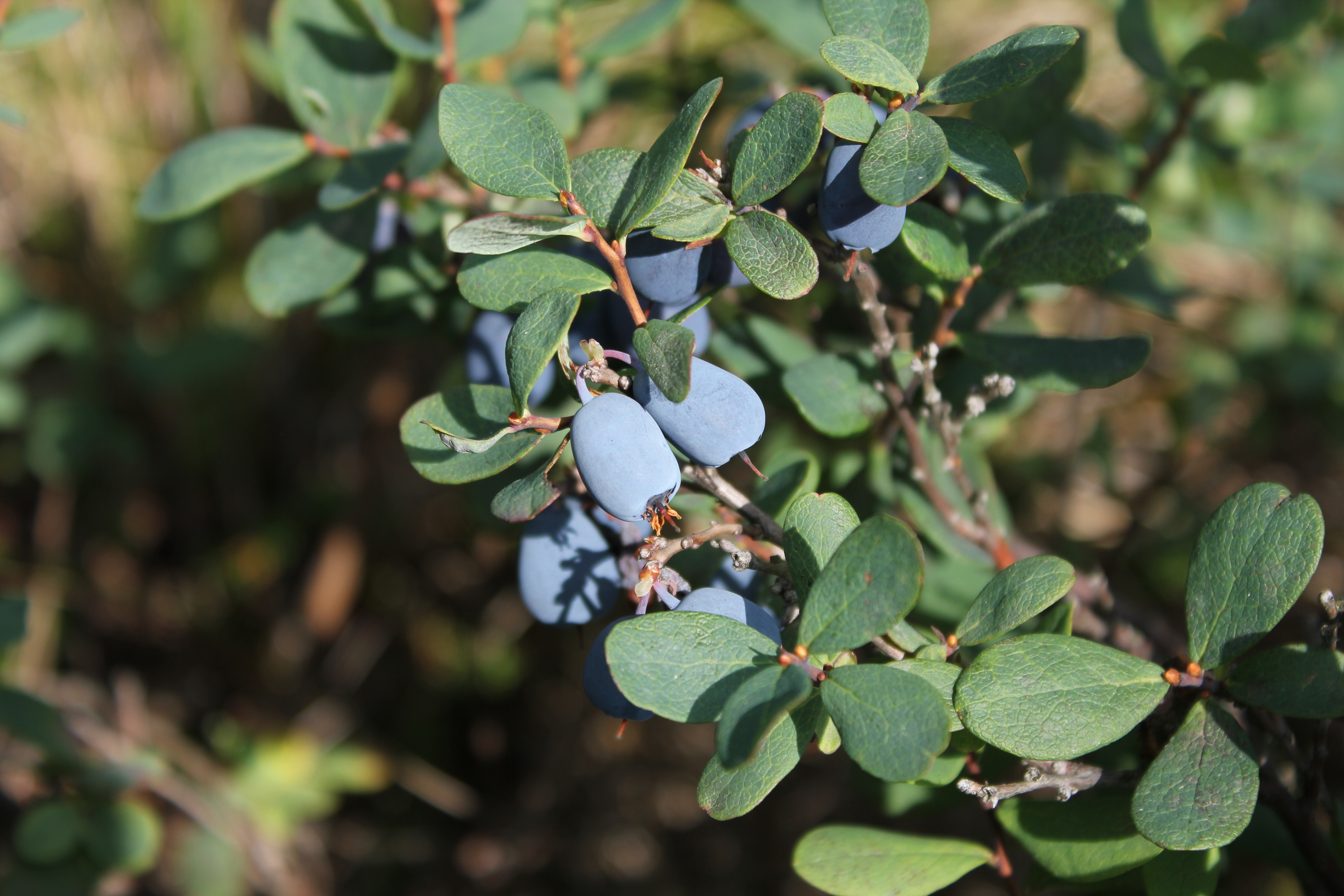 Vaccinium uliginosum, Black Moor (Rhön)